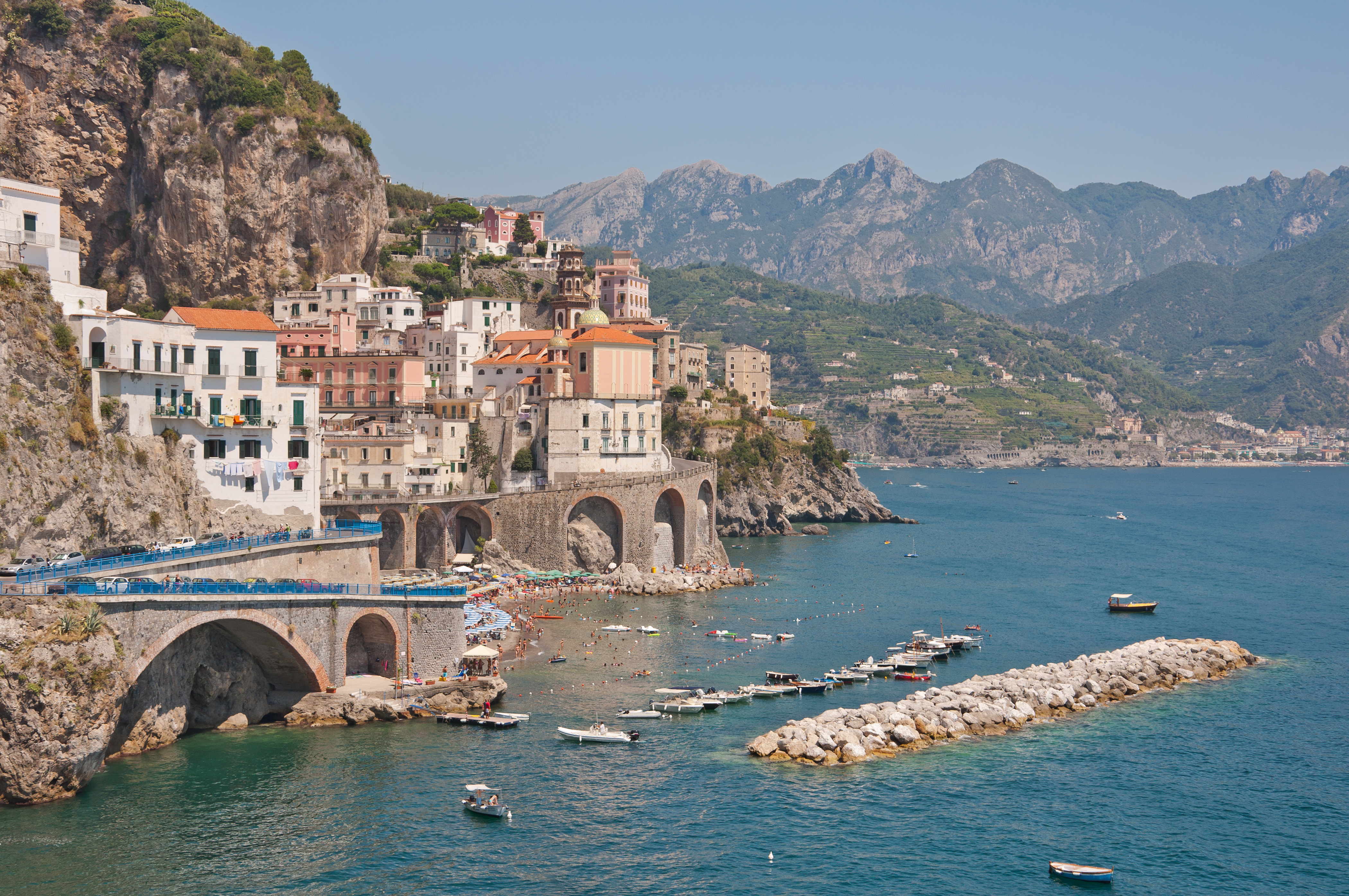 Atrani, on the Amalfi Coast near Naples in Southern Italy. World Heritage Site since 1997.